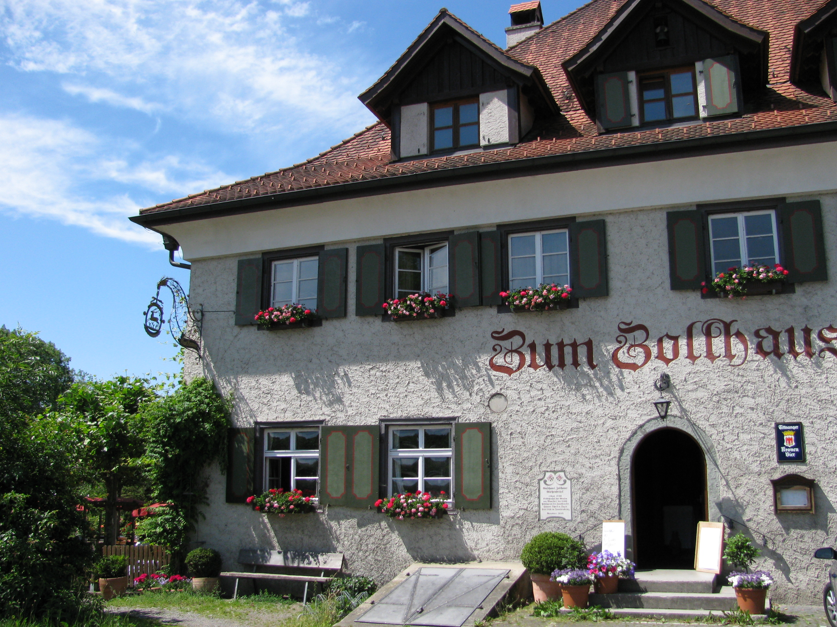 Germany - Baden-Württemberg - Bodenseekreis - Kressbronn am Bodensee - Gießenbrücke: "Zollhaus"